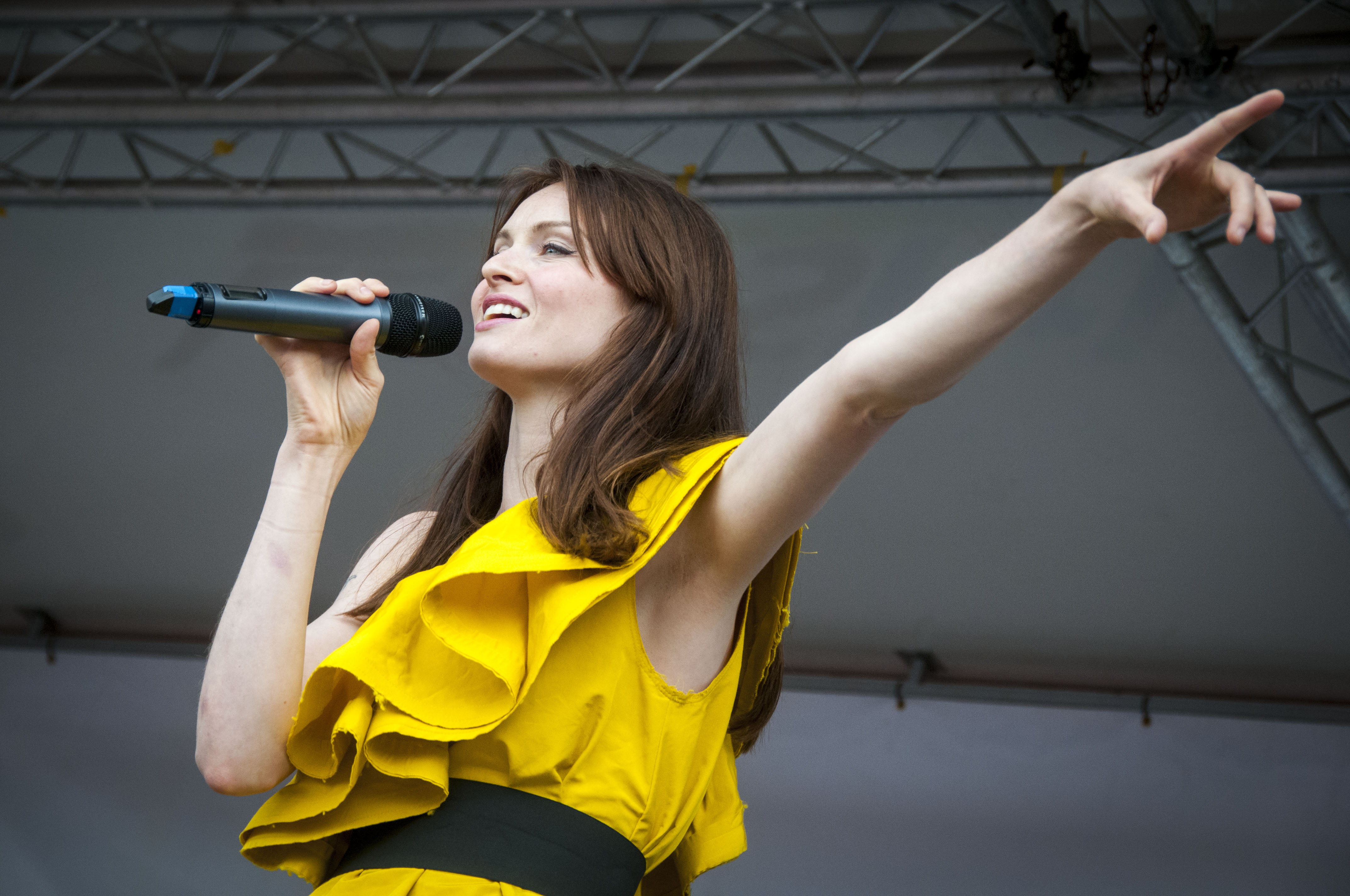 Leeds Pride 2013